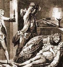 Discovery of the corpse of Marc-Antoine Calas